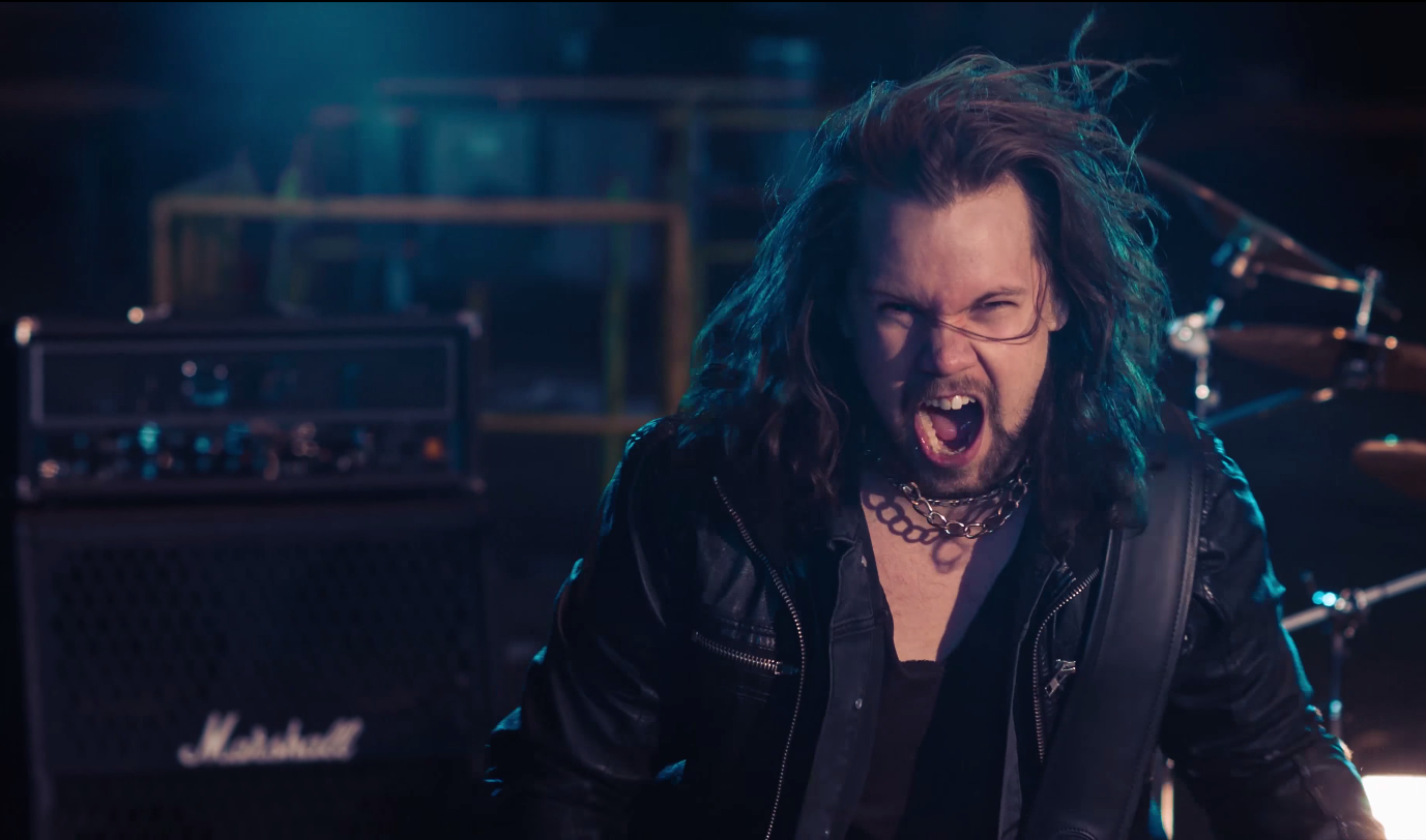 Patrik Kvalvik Svendsen. Vocalist, rhythm guitarist and songwriter in Norwegian heavy metal band, Tonic Breed.